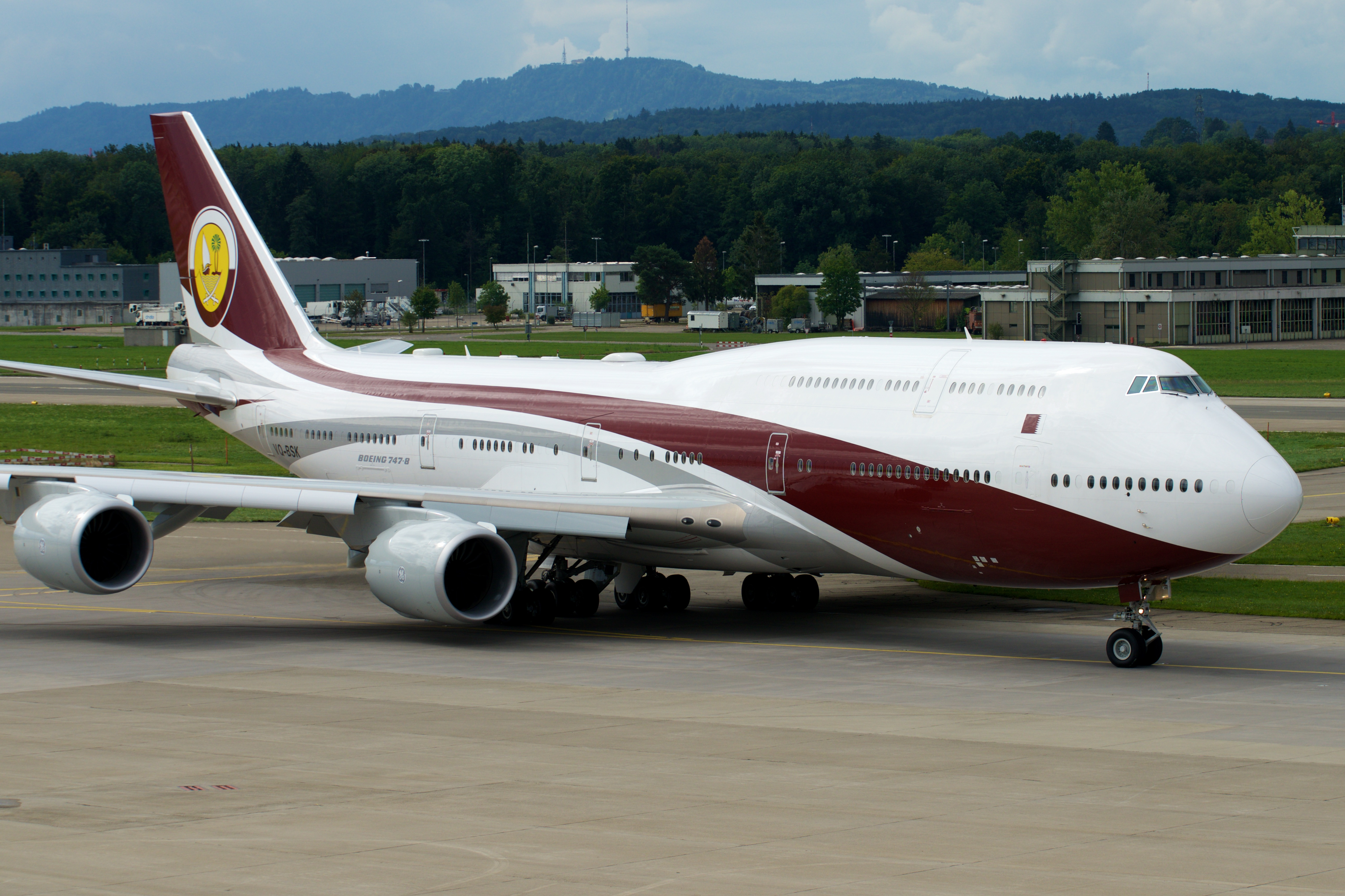 Qatar Amiri Flight Boeing 747-8 VQ-BSK at Zurich Airport